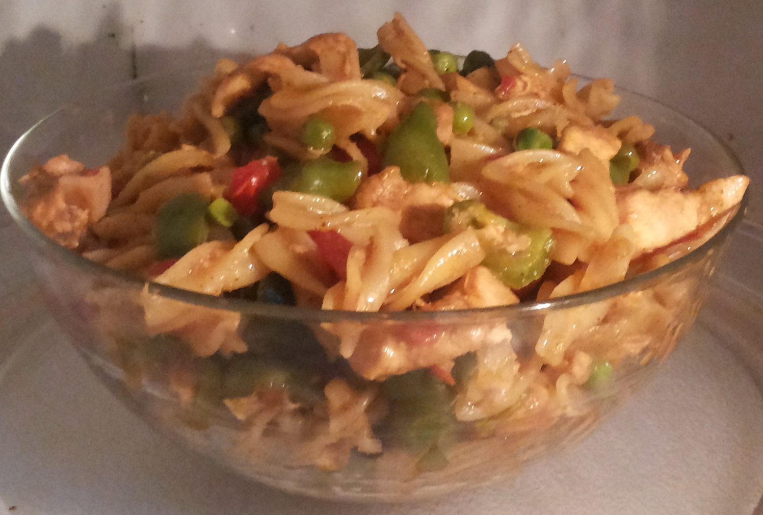 Spiral shaped pasta